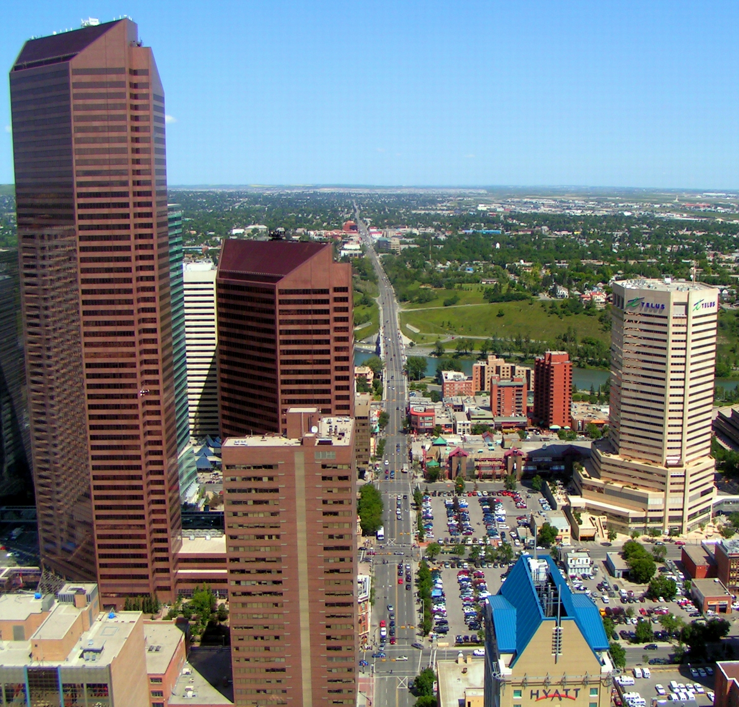 View from Calgary Tower, Calgary, Alberta, Canada, with Petro-Canada Centre, Centre Street N and Telus building